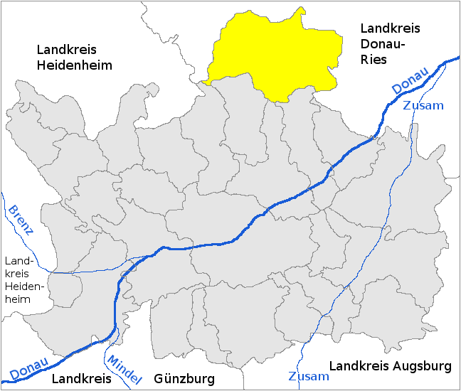 Bissingen in the district of Dillingen